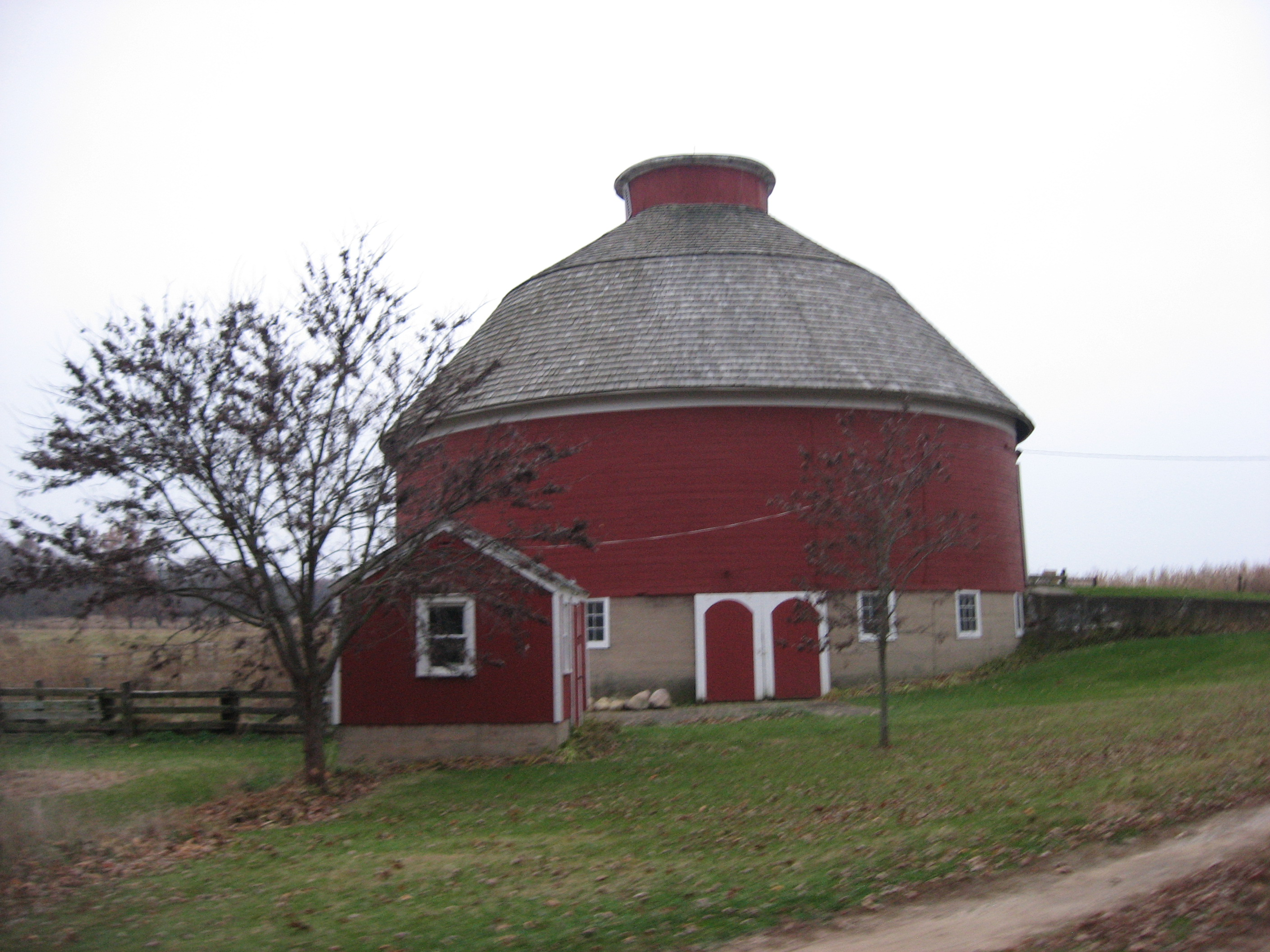 Roadside view of the Ramsay-Fox Round Barn, located at 18889 Ninth Road south of Plymouth in West Township, Marshall County, Indiana, United States. Built in 1911, it is listed on the National Register of Historic Places.